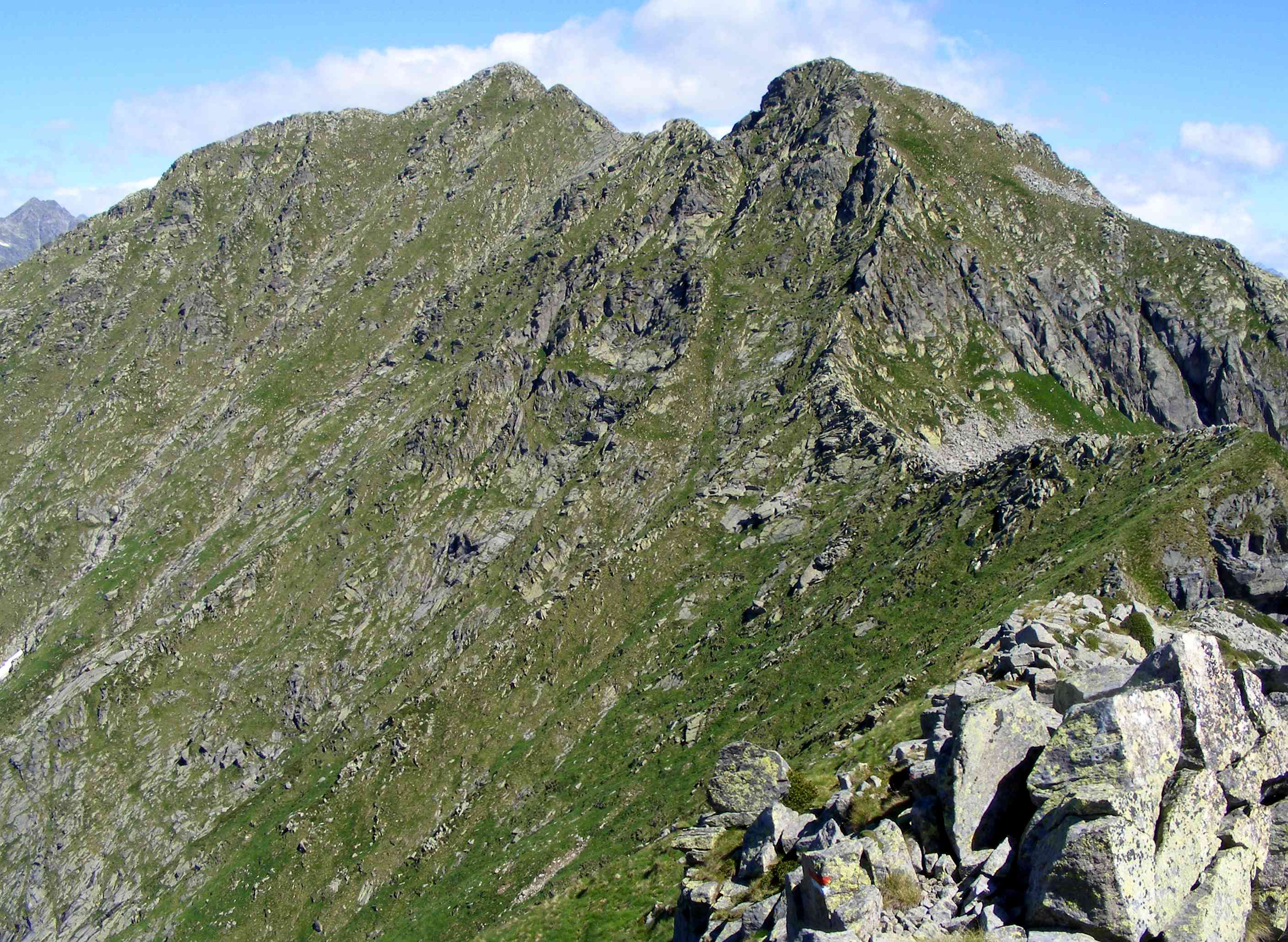 Mount Bo (Pennine Alps, BI, Italy) as seen from Punta del Cravile